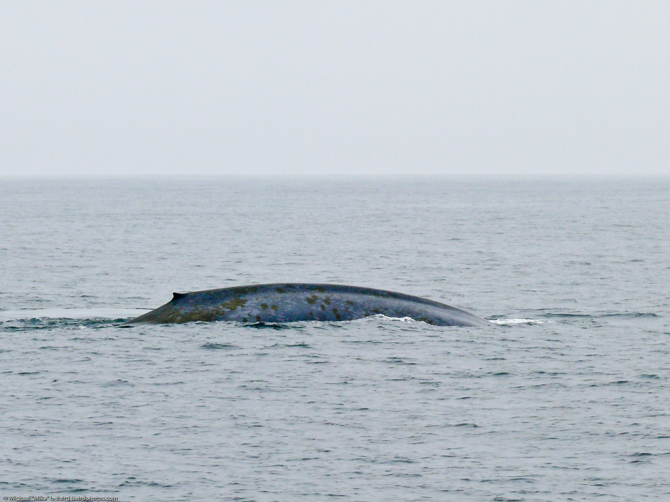 Blue Whale Balaenoptera musculus perhaps 20 metres long, Mysticeti baleen whale off Santa Cruz Island in the Channel Islands, near Santa Barbara, CA on a tour on the boat Condor Express 07 Sept. 2008